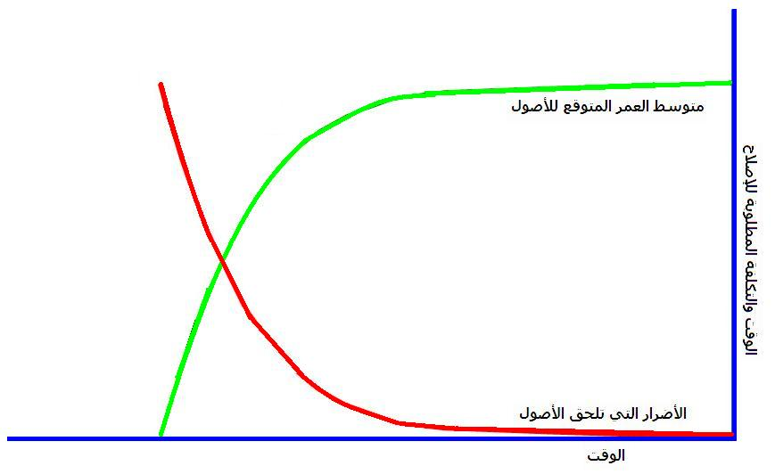 Machine failure curve and repair cost curve against time